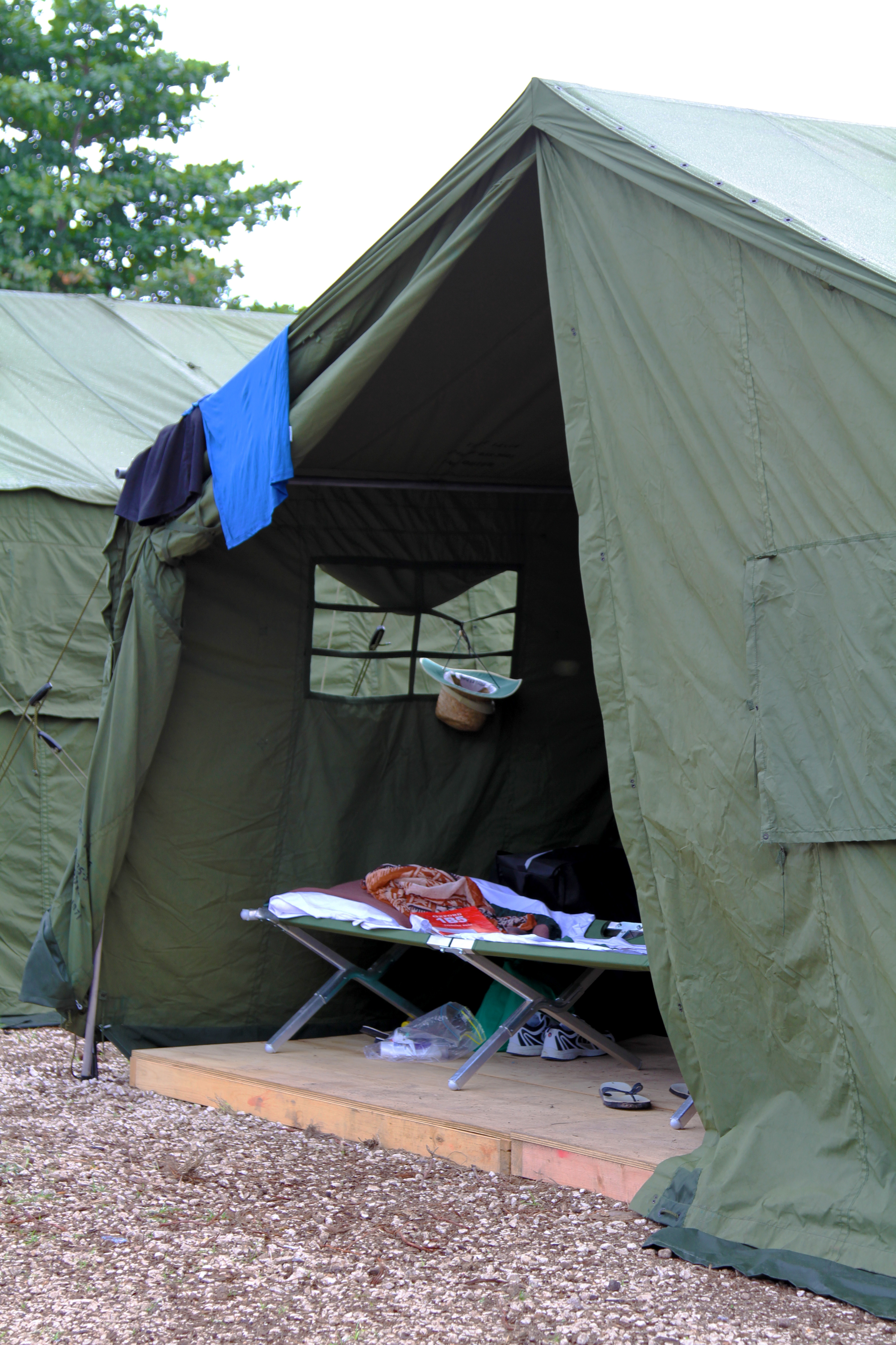 Nauru regional processing facility